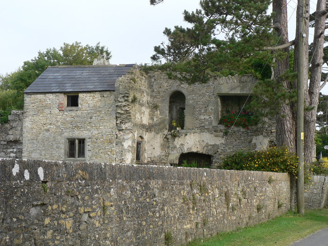 Ruins at Flemingston Court, Flemingston, Vale of Glamorgan (1 of 2) A grade 2 listed fortified manor house of the early 16th c. with an embattled courtyard added in the 17th c.